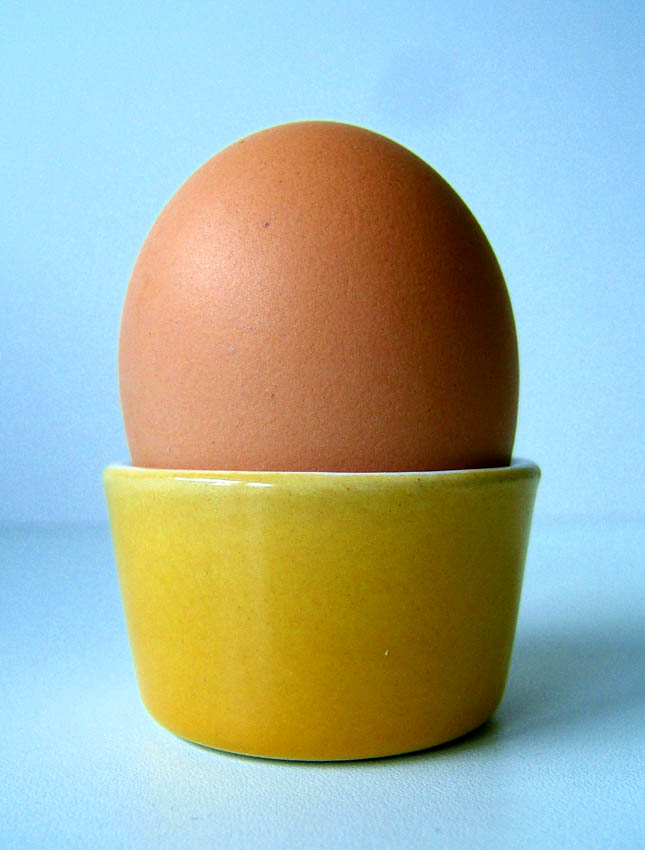 Yellow ceramic egg cup by IKEA with brown egg